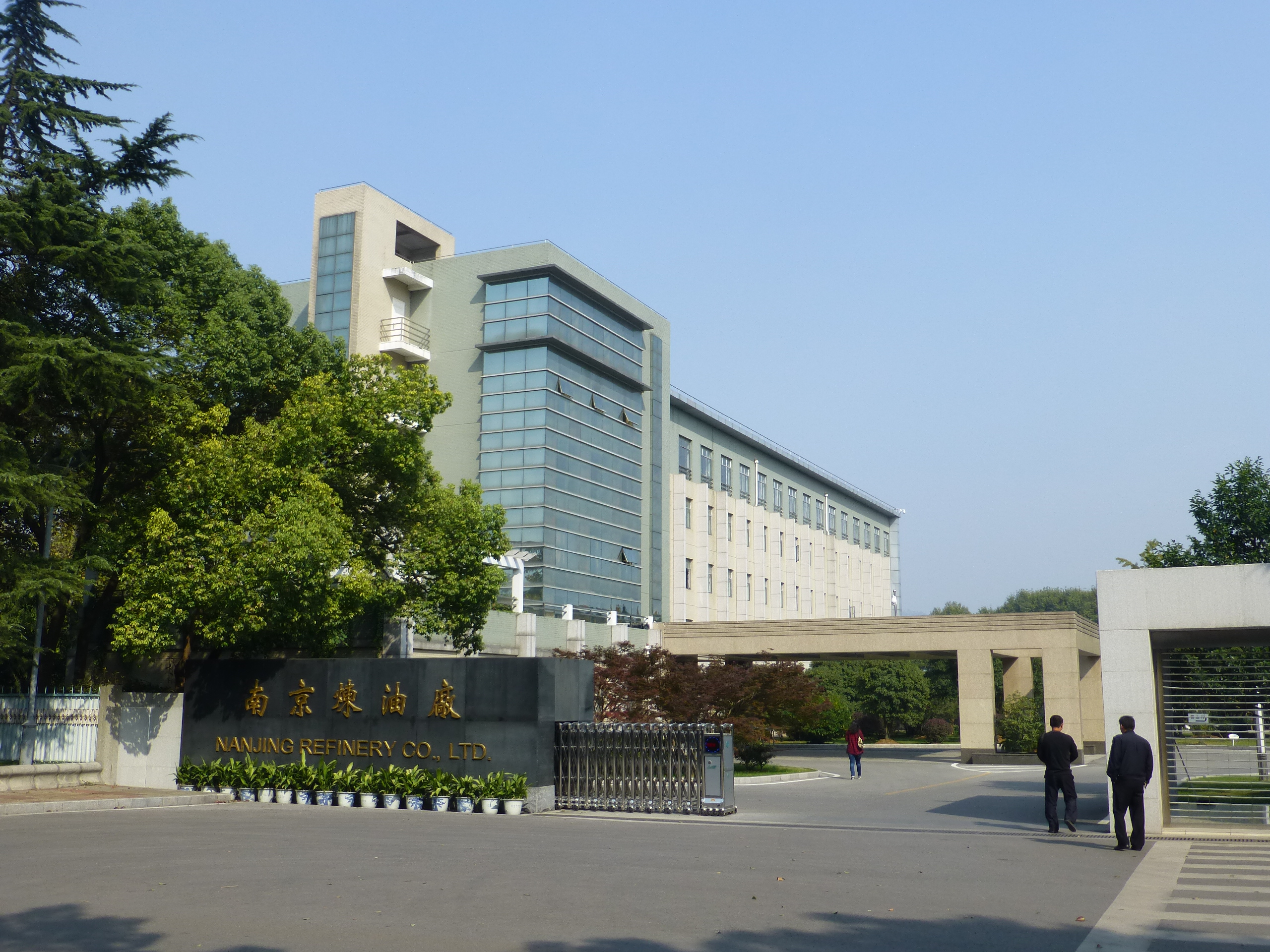 Nanjing Oil Refinery